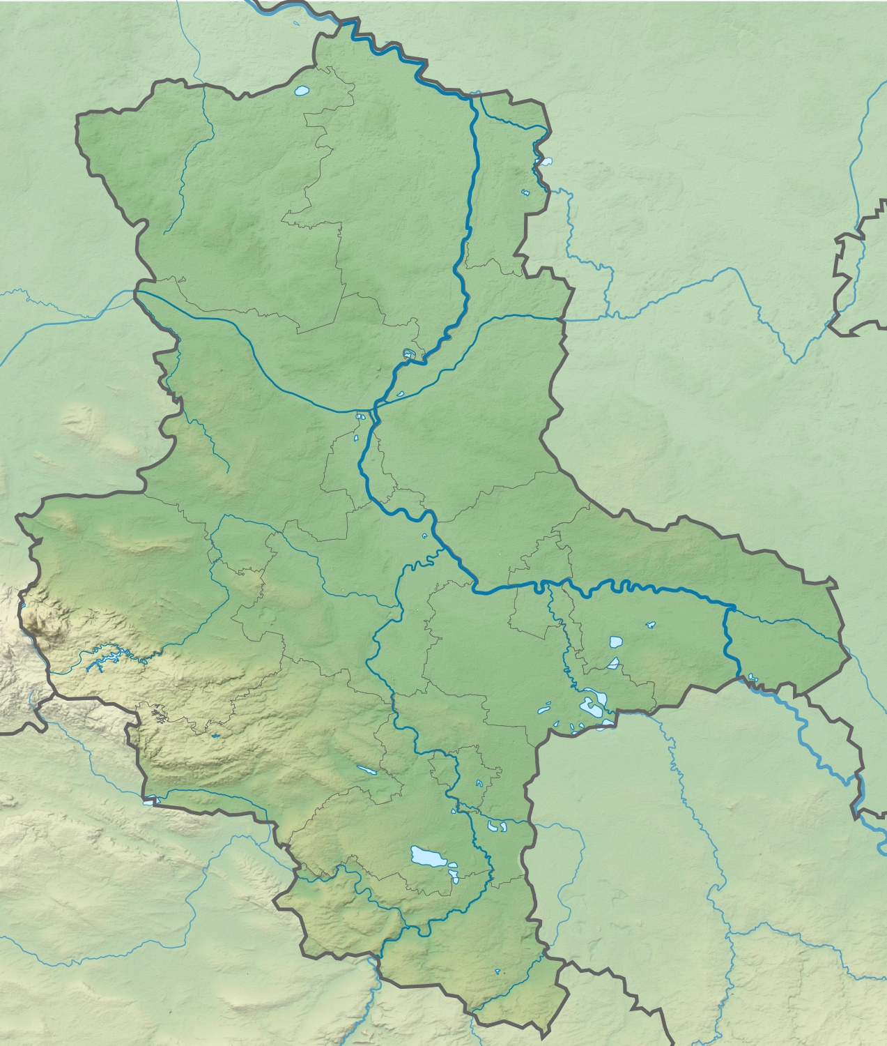 Physical Location map Saxony-Anhalt, Germany. Geographic limits of the map: N: 53.076° N S: 50.930° N W: 10.519° O E: 13.287° O